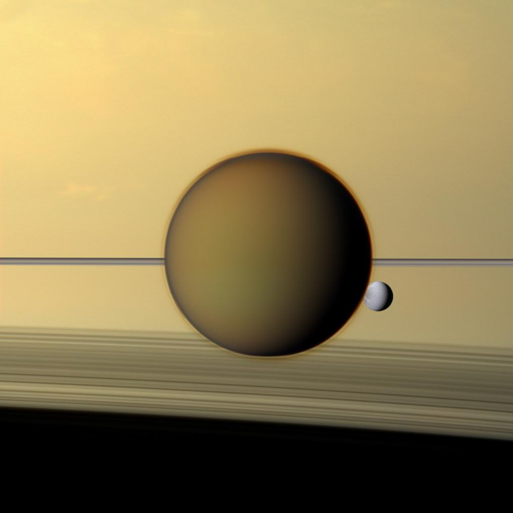 Orbiting in the plane of Saturn's rings, Saturnian moons have a perpetual ringside view of the gorgeous gas giant planet. Of course, while passing near the ring plane the Cassini spacecraft also shares their stunning perspective. The rings themselves can be seen slicing across the middle of this Cassini snapshot from May of last year. The scene features Titan, largest, and Dione, third largest moon of Saturn. Remarkably thin, the bright rings still cast arcing shadows across the planet's cloud tops at the bottom of the frame.